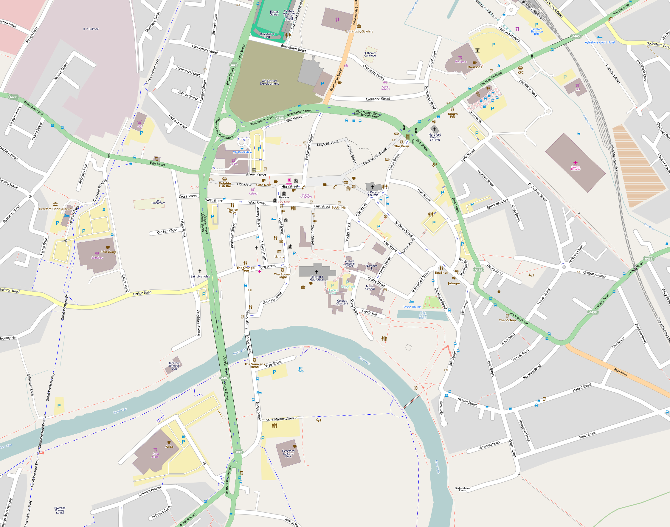 Map of Hereford Central Geographic limits: N: 52.06099° S: 52.048° W: -2.72873° E -2.70186°